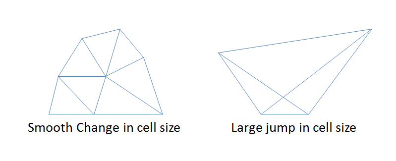 Picture shows the smooth and large jump in cell size